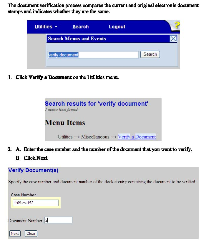 Document Verification Procedure, page 1